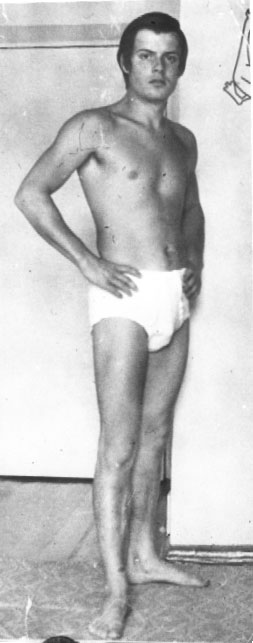 до удлинения голеней